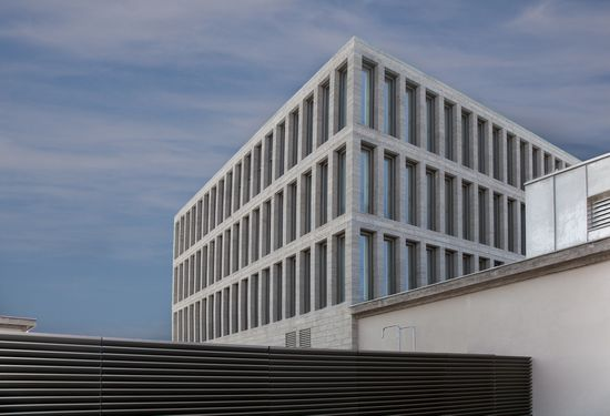 Upper Austrian Regional Library